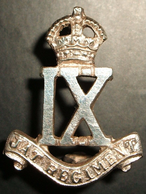 The Jat Regiment Insigna (Pre 1947 British India). Picture of a Chrome Jat Regiment Badge owned & taken by me.